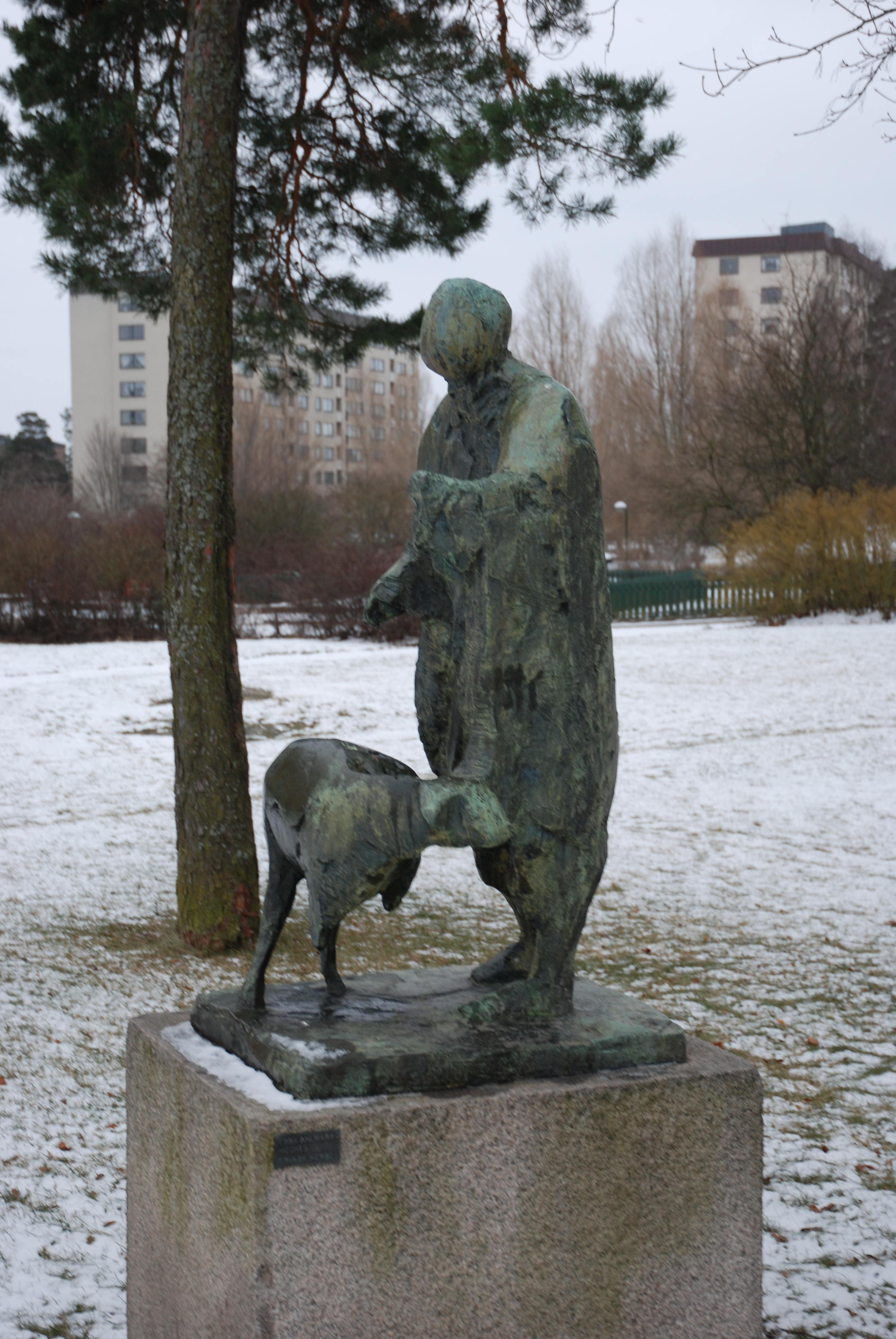 Ebba Ahlmark-Hughes´ Herder with sheep´´, Bredäng, Stockholm